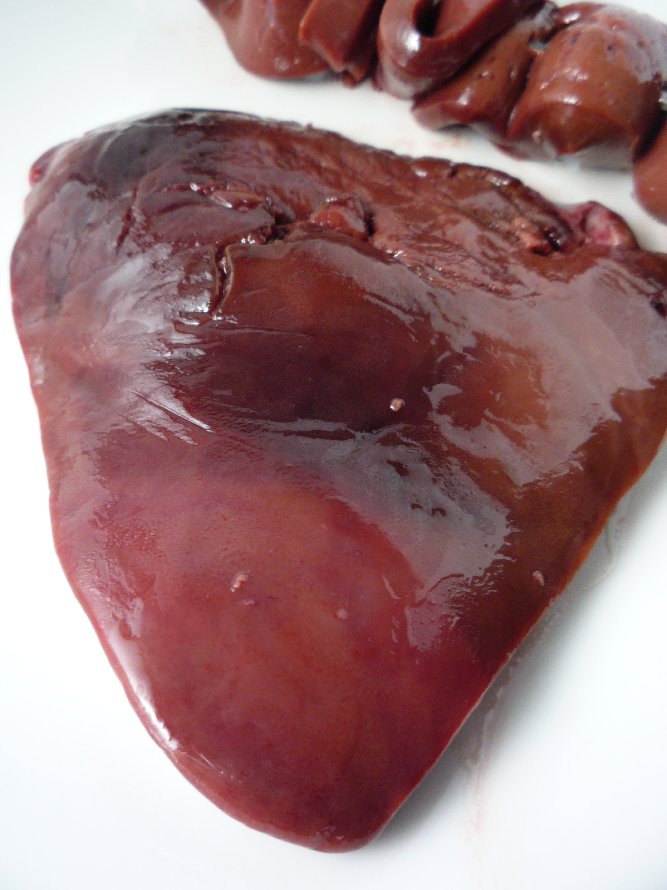 Lamb (sheep) liver